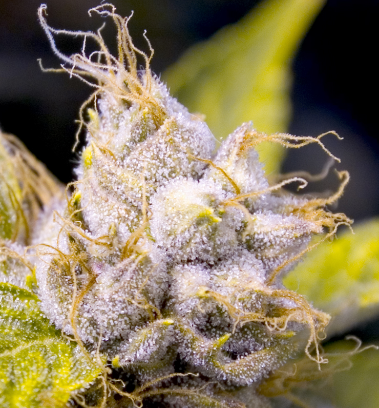 A closeup picture of a female OG Kush plant, at about 6 weeks into the flowering stage. The large number of trichomes is clearly visible, as well as the characteristic vibrant green of the OG Kush strain.